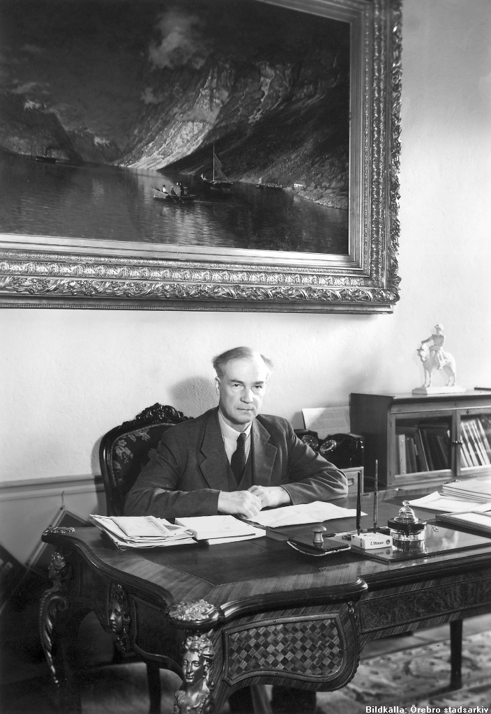 Head of Örebro county, K.J. Olsson